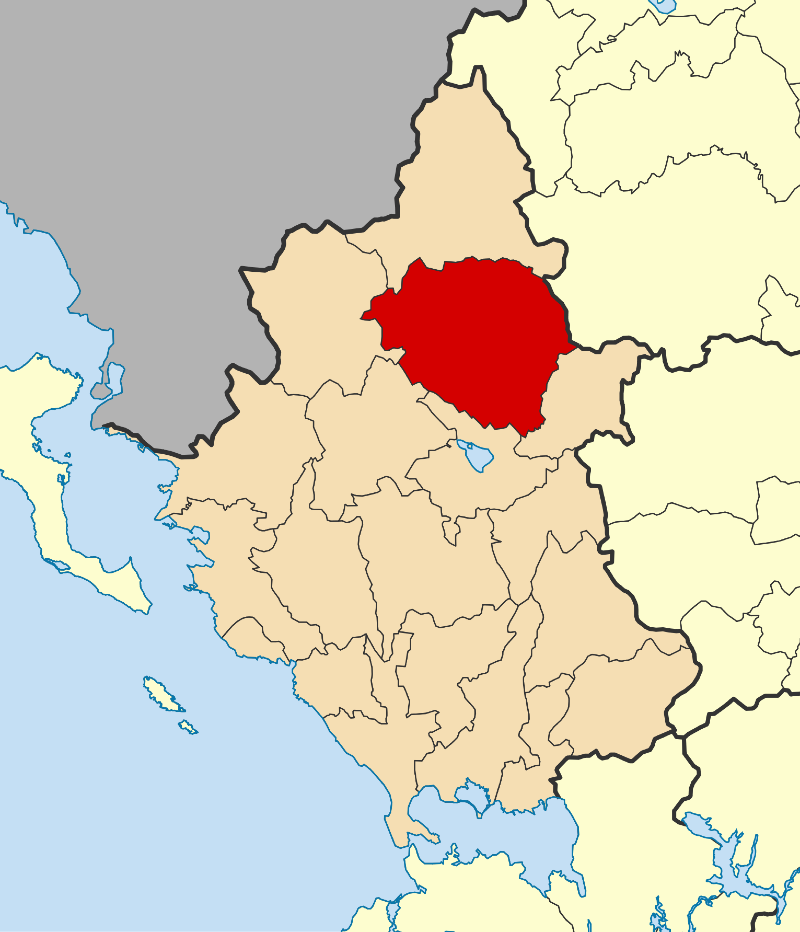 Locator map for Zagori municipality in Greek region Epirus (2011)